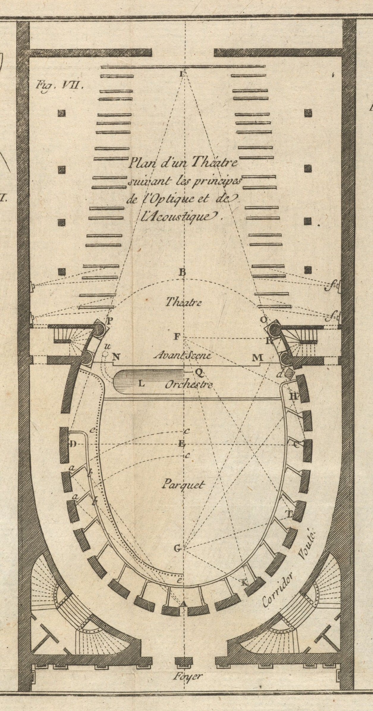 Illustration "Plan d'un Théatre suivant les Principes" (Fig. VII on plate I, after page 212), from Essai sur l’architecture thêatrale, ou, De l’ordonnance la plus avantageuse à une salle de spectacles, relativement aux principes de l’optique & de l’acoustique, Paris: 1782, by Pierre Patte (1723-1814). Thr 1150.4.65*, Harvard Theatre Collection, Houghton Library, Harvard University